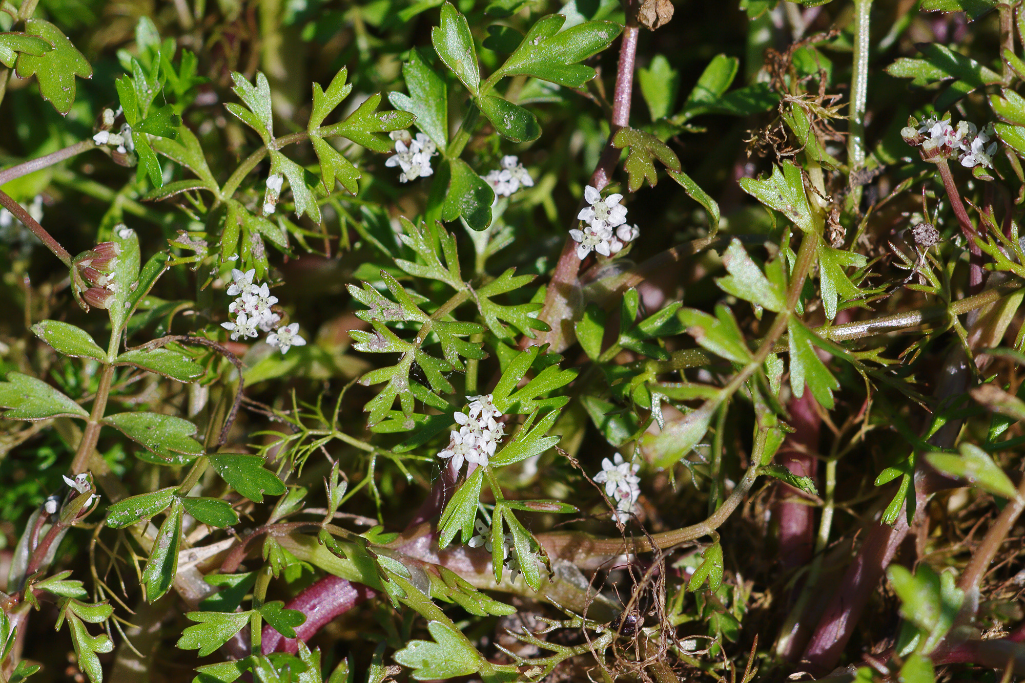 Habitus of flowering Lesser marshwort (Apium inundatum / Helosciadium inundatum) with aquatic, semiaquatic, and terrestrial leaves.